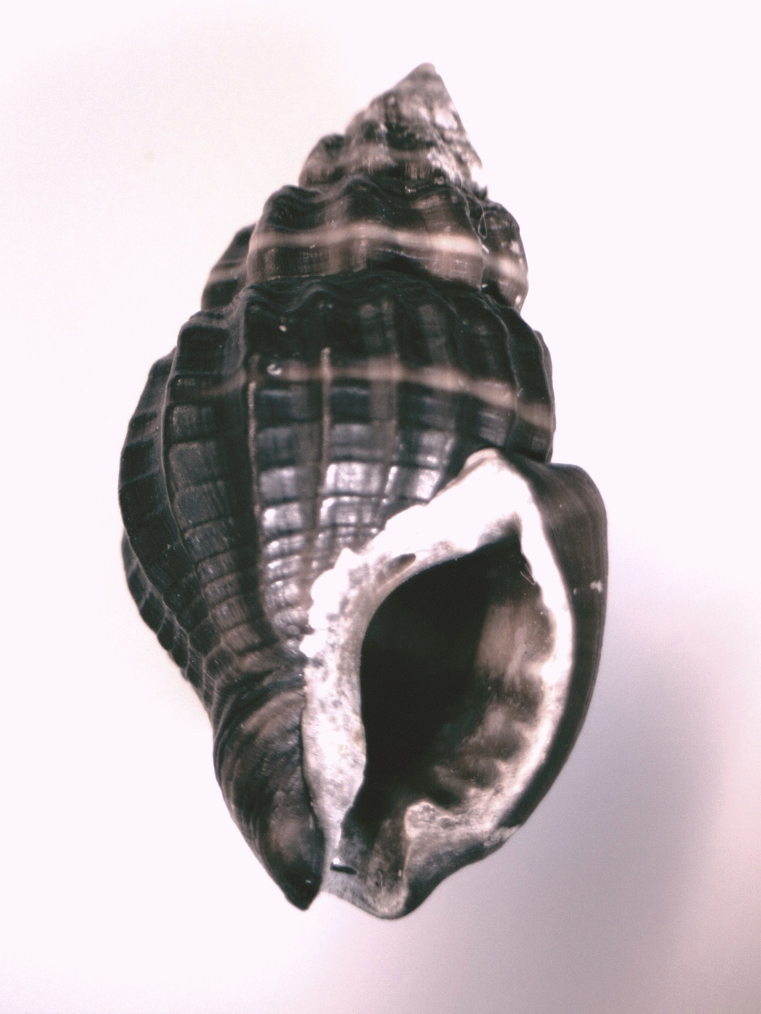 Hebra corticata (A. Adams, 1852), a nassa mud snail from the family Nassariidae; Philippines